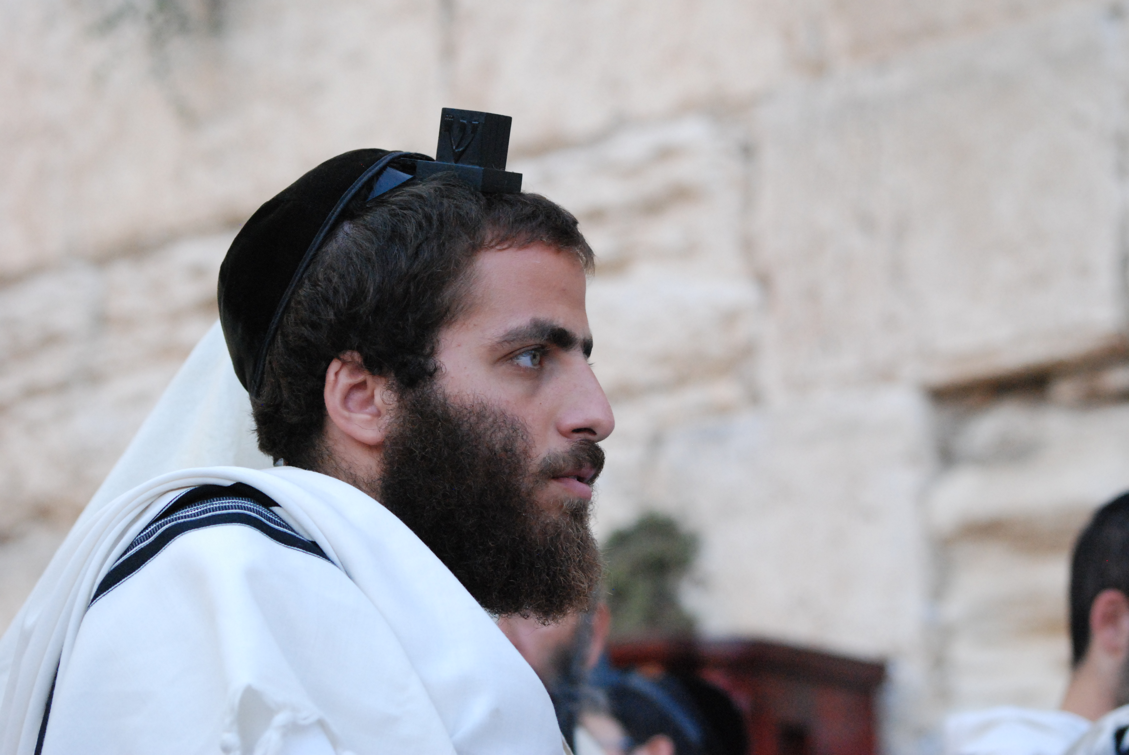 Tisha B'Av at the Western Wall